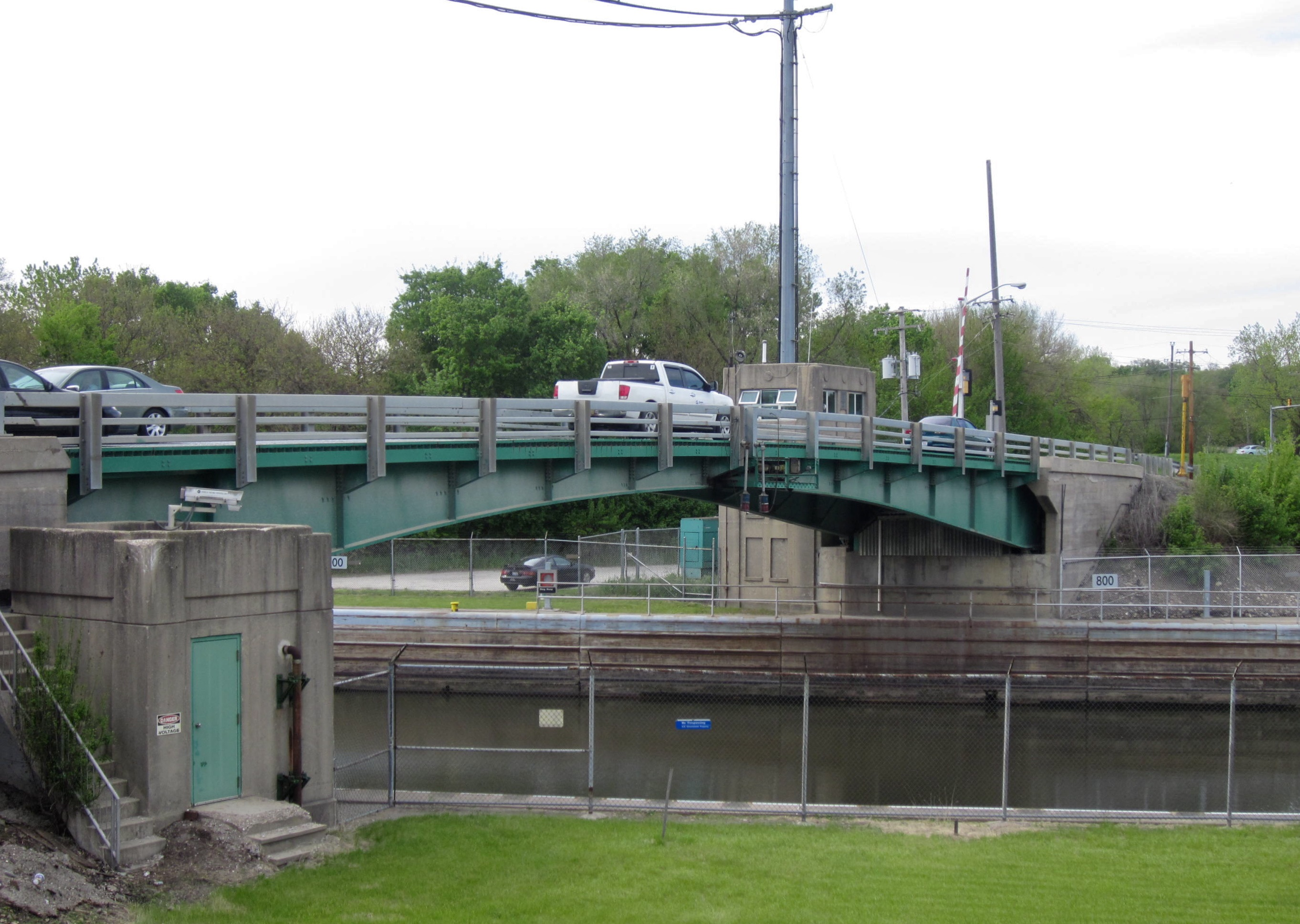 The Brandon Road Bridge over the lock channel in Joliet, Illinois